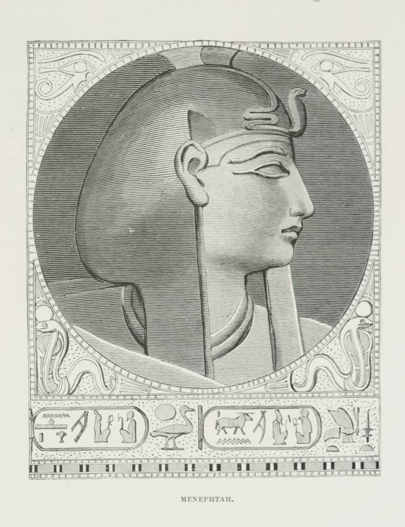 Bust of Menephtah.